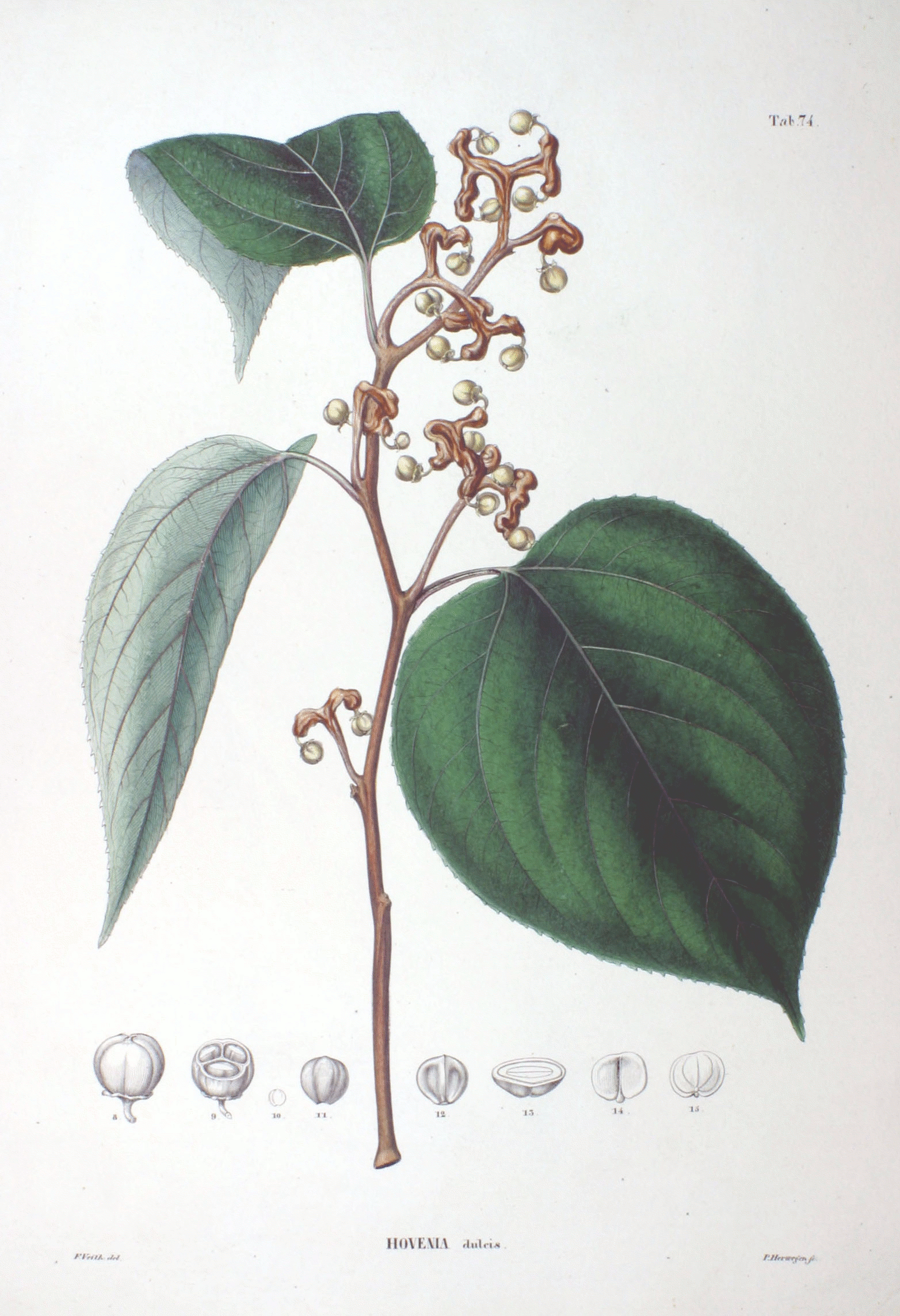 Plate from book